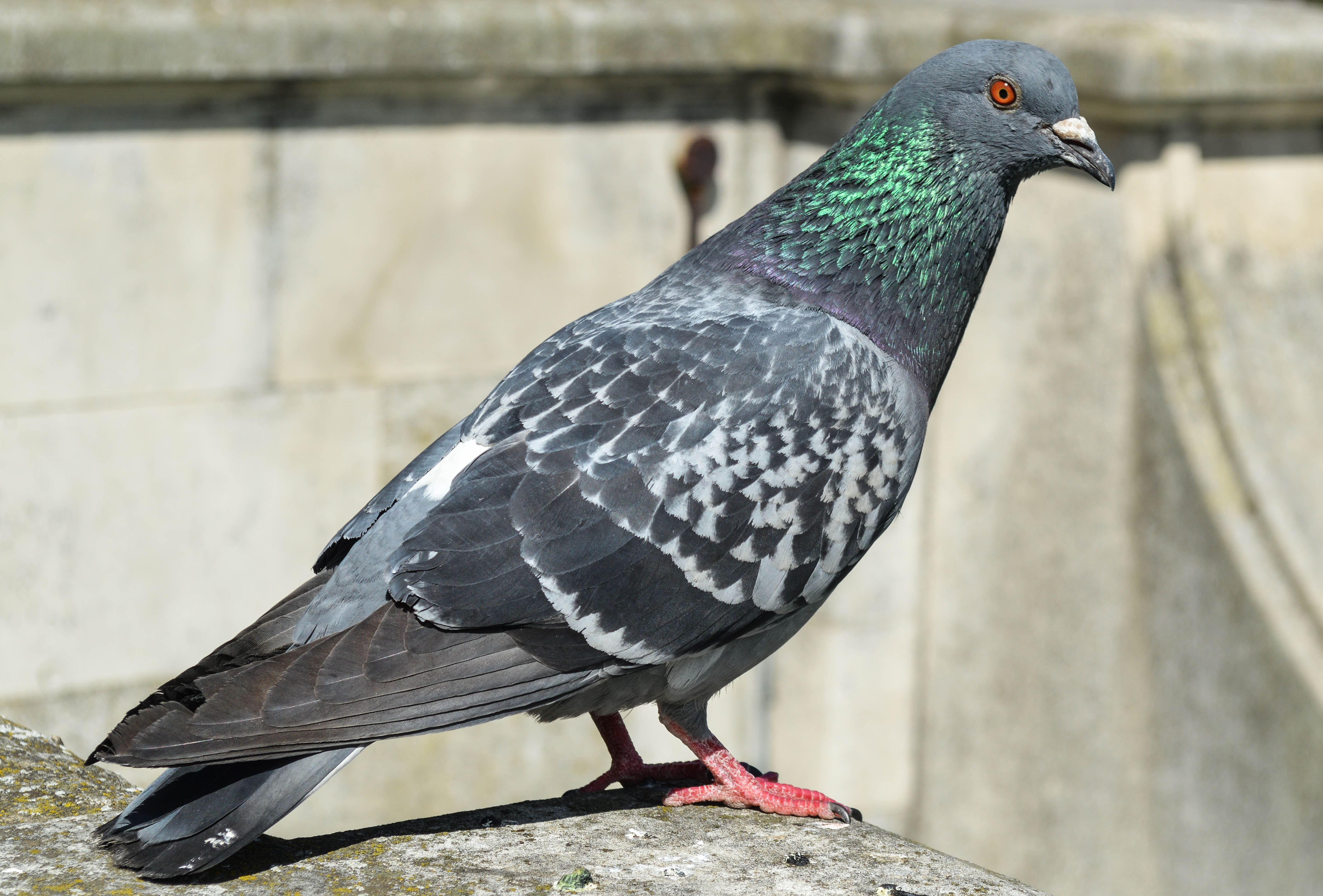 A feral pigeon, located near St. Paul's Cathedral in London.